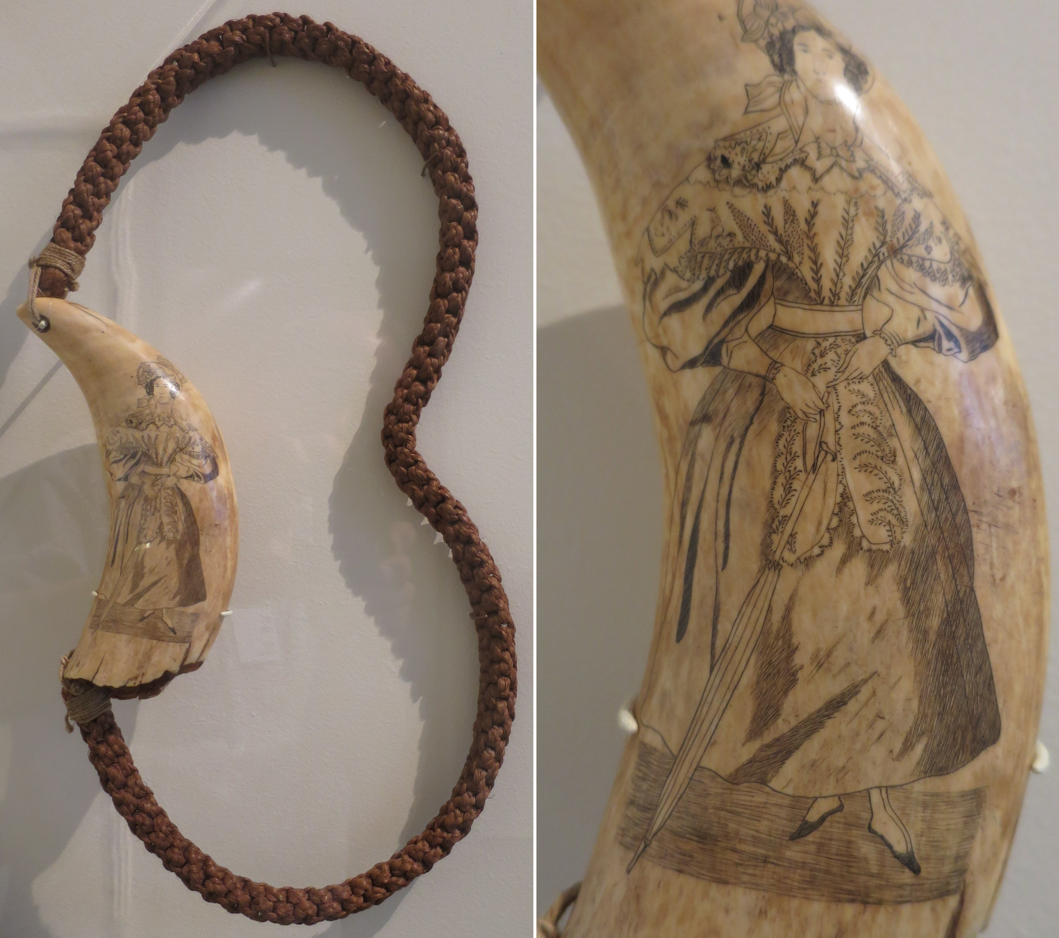 Pendant (tabua), Fiji, c. 1835-1840, engraved sperm whale tooth, pigment and coconut fiber sennit cord, Honolulu Museum of Art, accession 4972.1